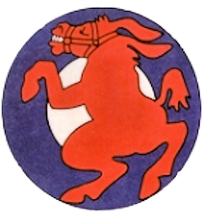 Emblem of the 356th Fighter Squadron (World War II)